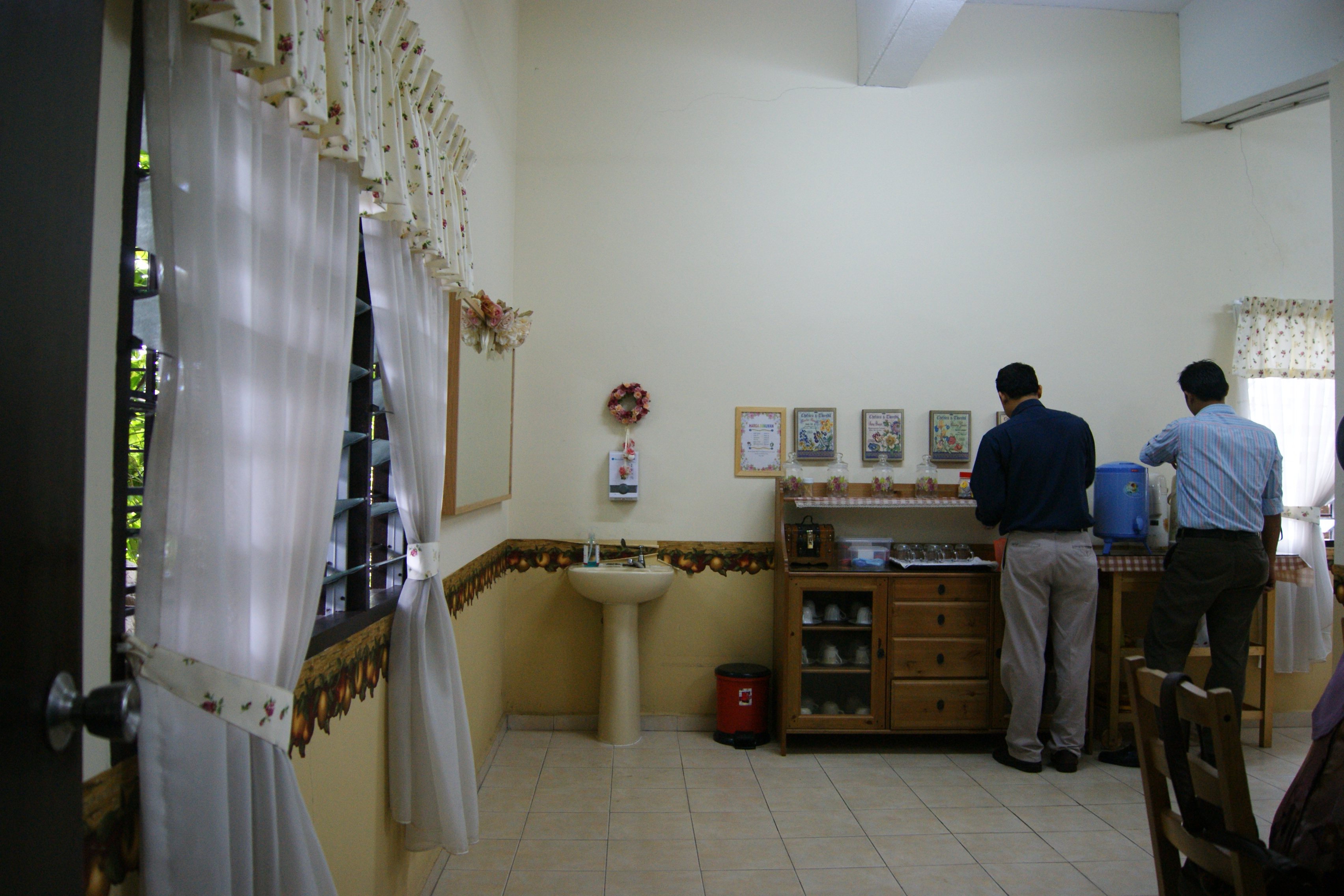 Teacher's Cafe 2 - Last days of school